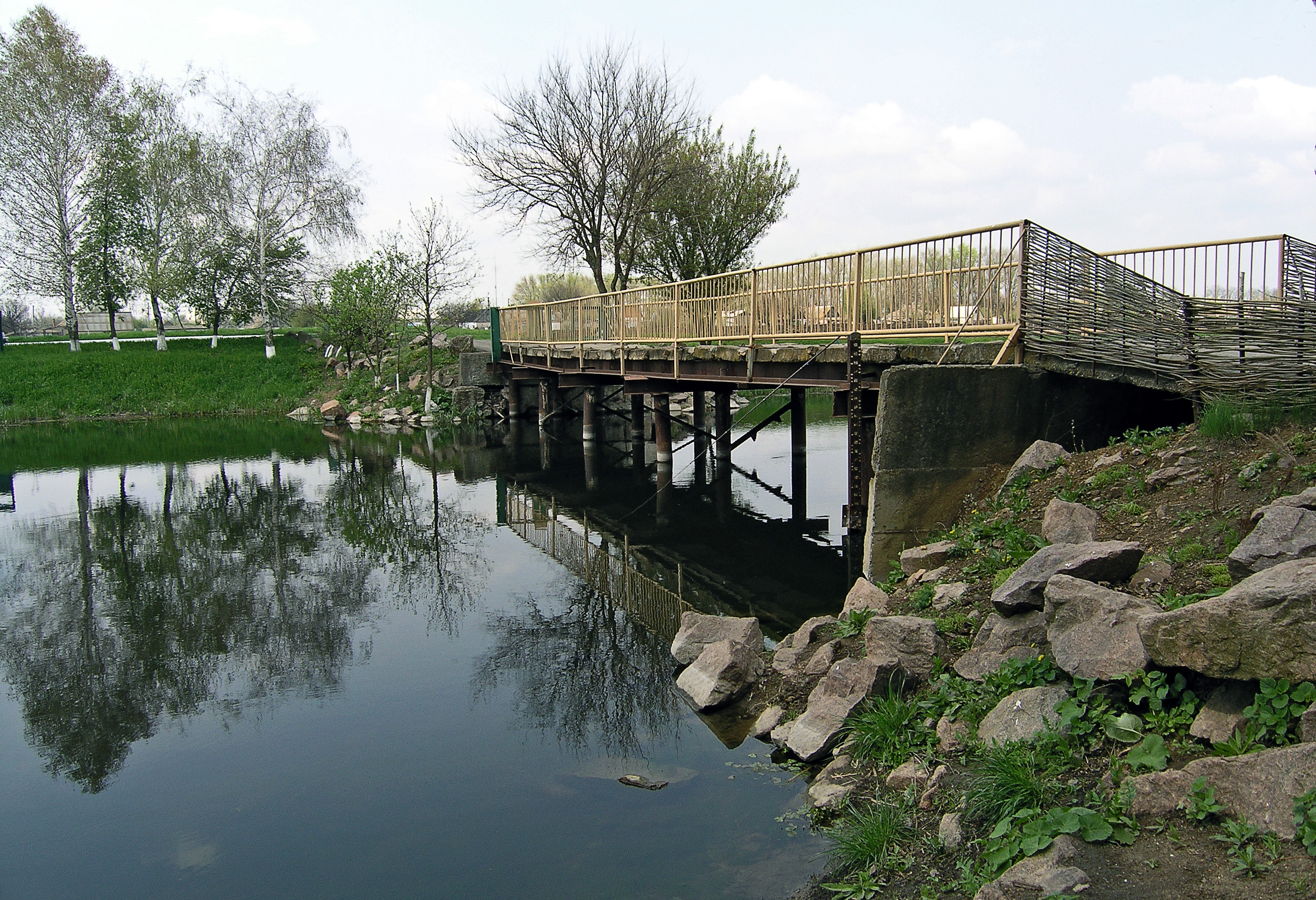 Khomutovska Steppe Nature Preserve — in the Khomytovs'ka steppe, Novoazovsk Raion, Donetsk Oblast, east Ukraine. The wooden bridge leads to the entrance of the nature preserve.